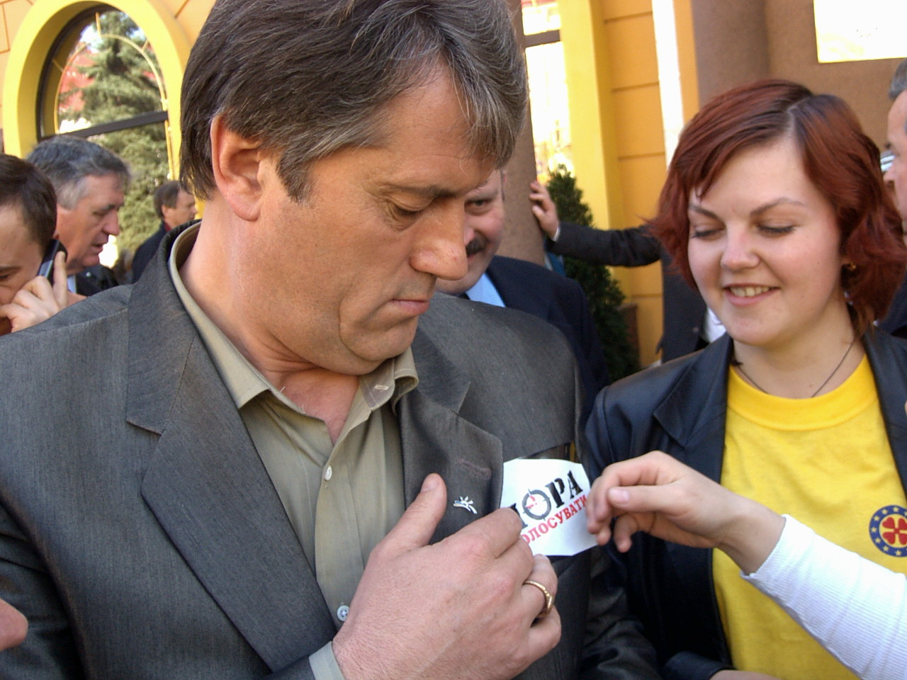 Viktor Yushchenko gets a sticker from PORA activists before Mukacheve mayoral election, 16 April 2004, Mukacheve, Ukraine